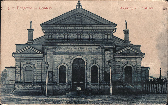 Здание бывшей Аудитории